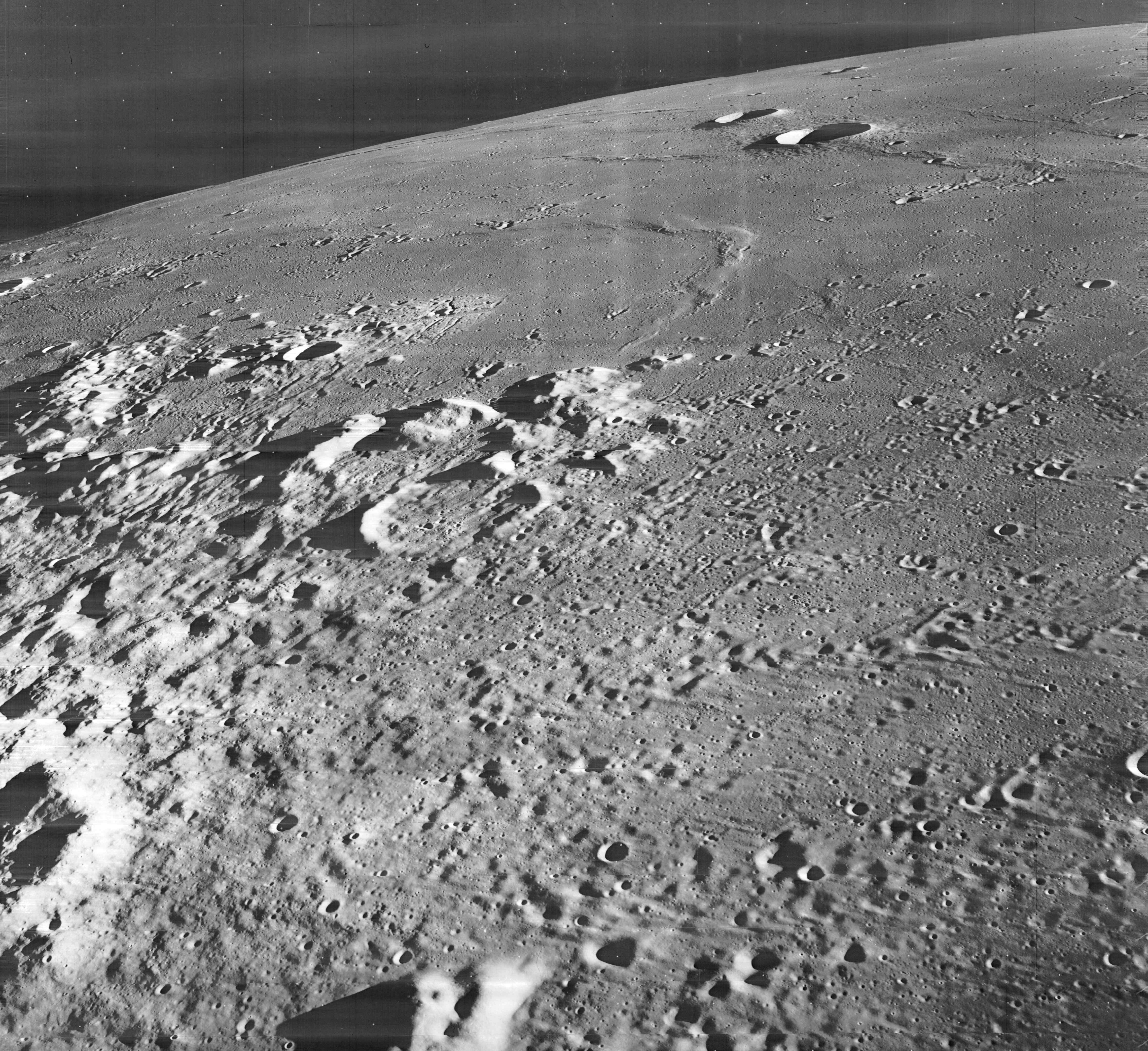 Oblique view of Planitia Descenus, on the moon, facing north. Galilaei crater is in upper right, and Cavalerius is just out of view to the left. Luna 8 and Luna 9 both landed in the upper right.